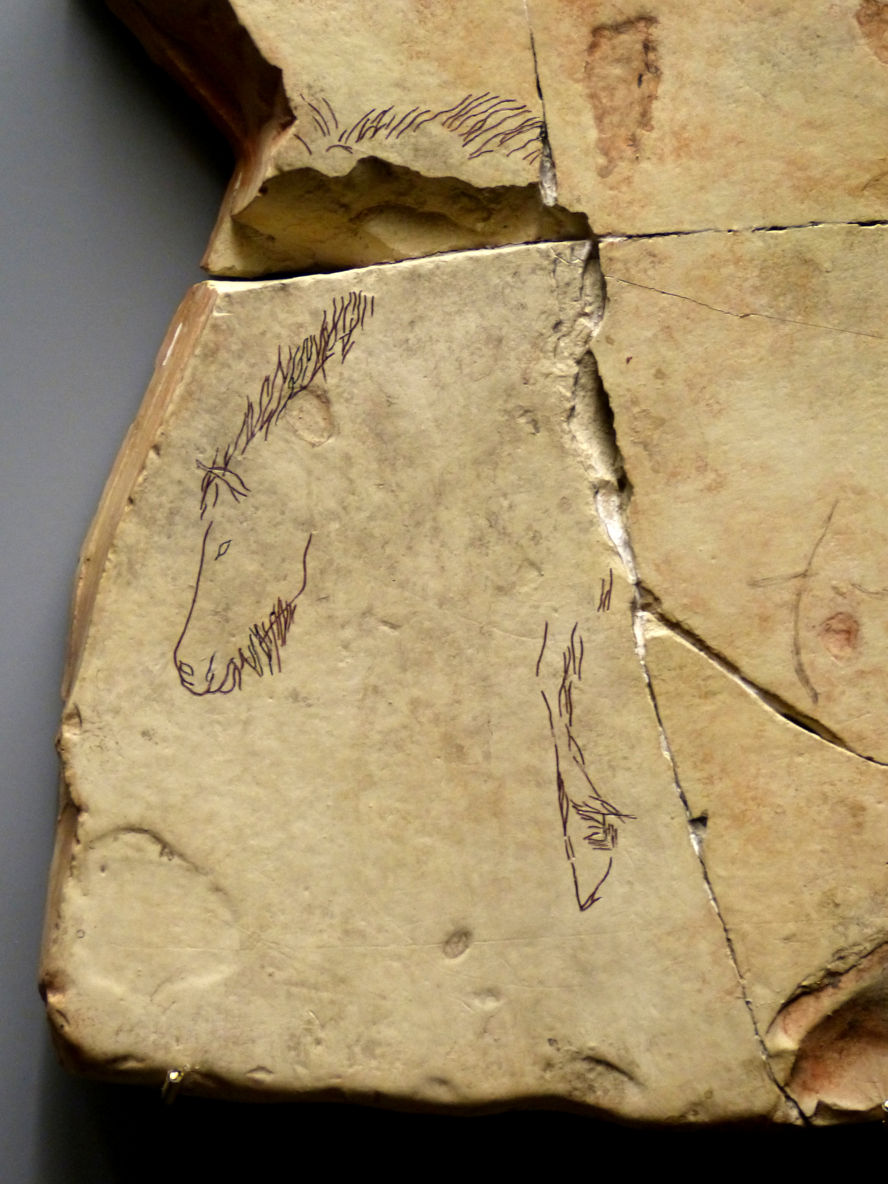 Landau an der Isar ( Lower Bavaria ). Archaeological Museum of Lower Bavaria: Paleolithic engraving of a horse ( replica ), from Klausen cavern ( Essing )